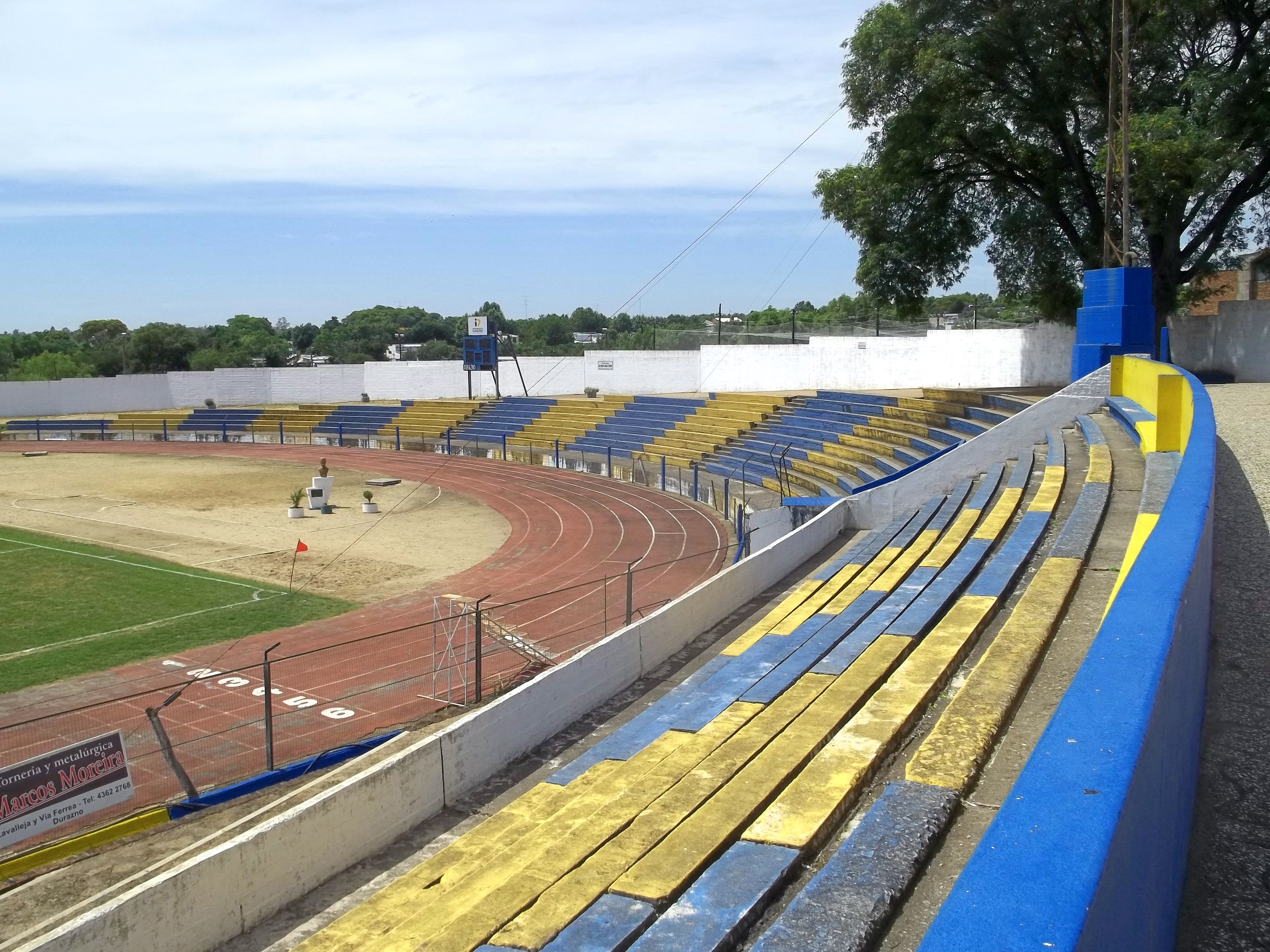 ESTADIO SILVESTRE OCTAVIO LANDONI DE DURAZNO FOTO 2